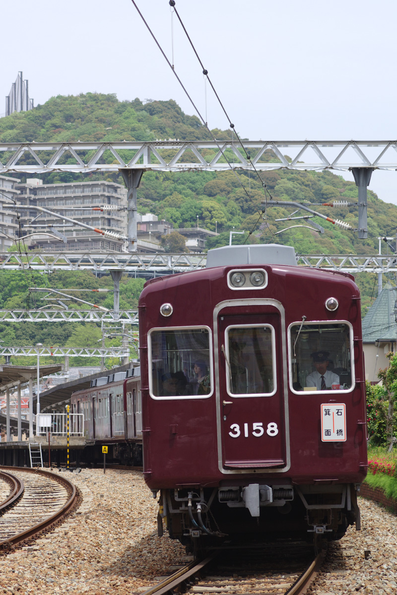 Hankyu Electric Railway Minoo Line